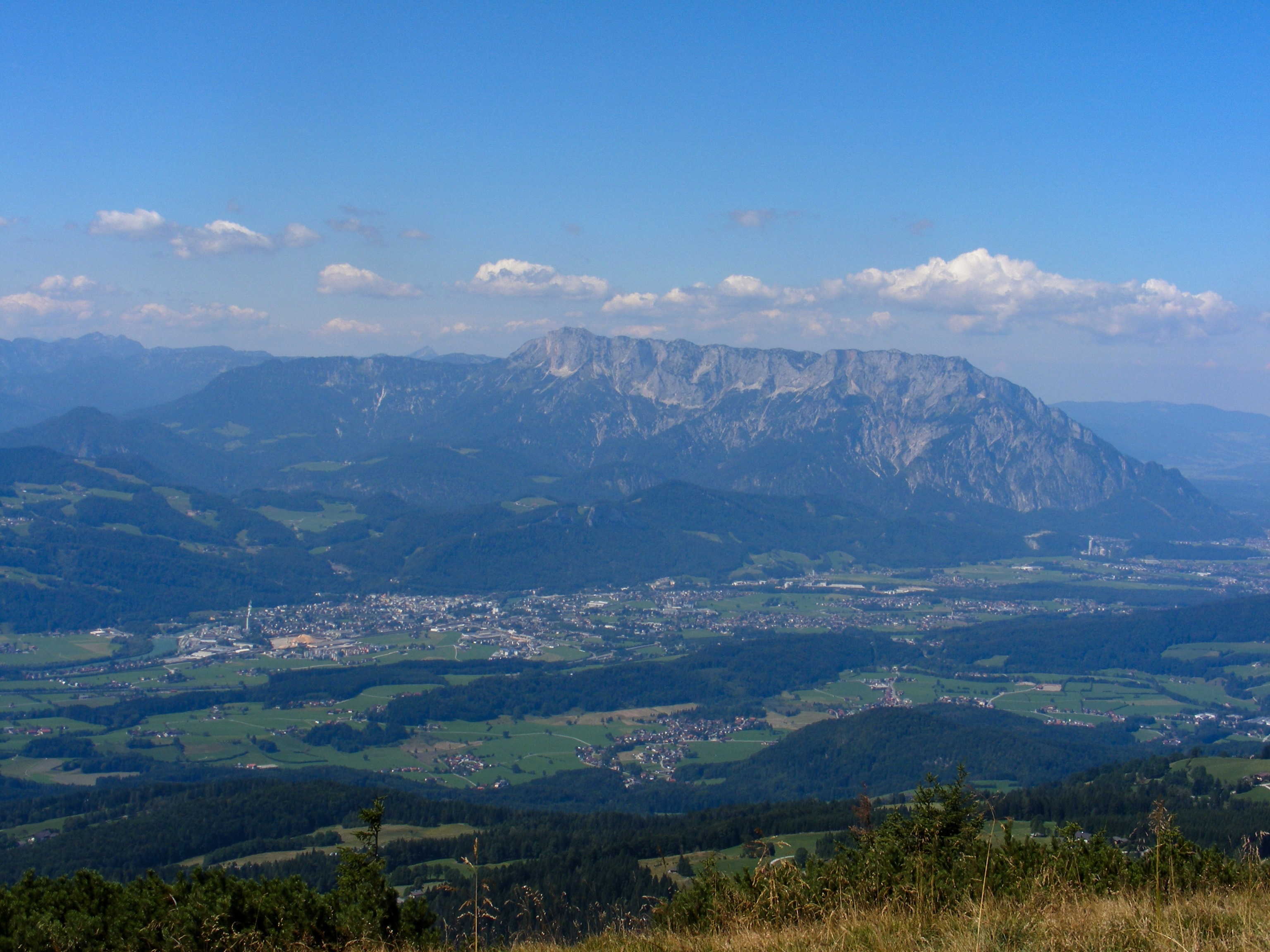 View from Schlenken into Salzach valley, mainly in the region of Hallein town; in the background center right: Untersberg